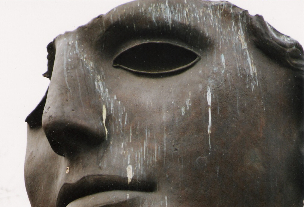 Sculpture with bird feces on it at Bamberg.